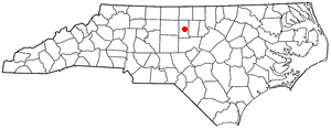 Category:North Carolina Dot Maps